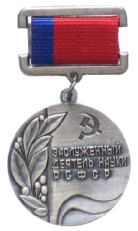 "Honored Scientist of the Russian SFSR"